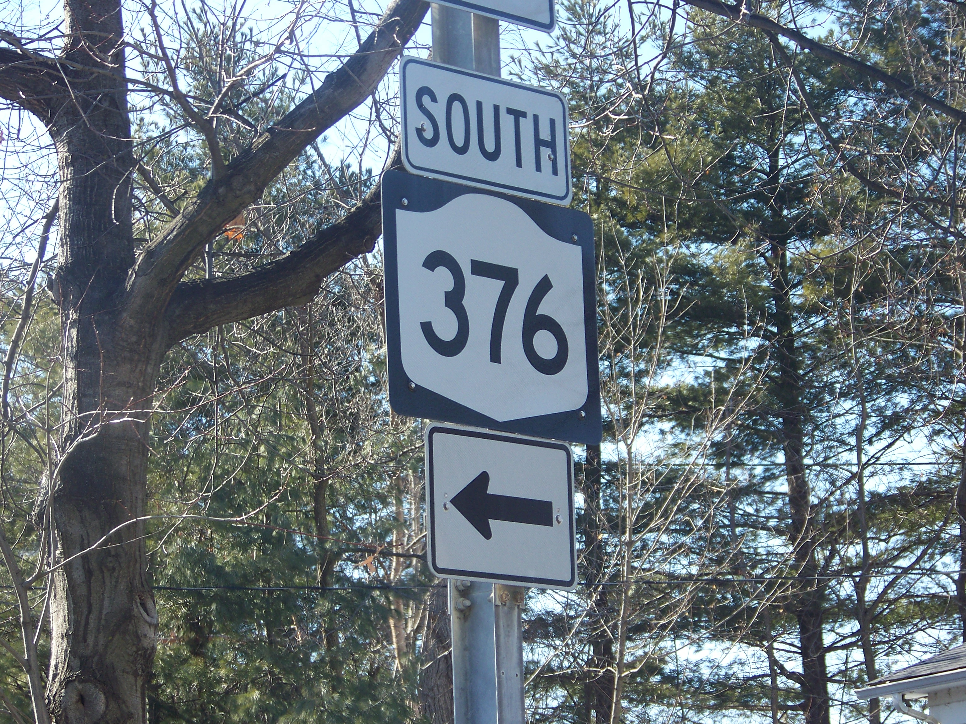 Image of New York State Route 376